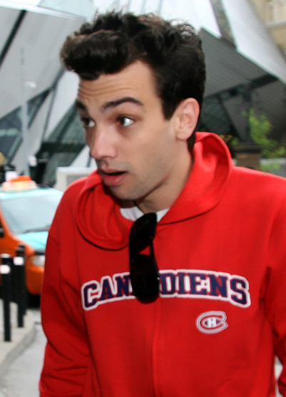 Jay Baruchel at the 2008 Toronto International Film Festival.